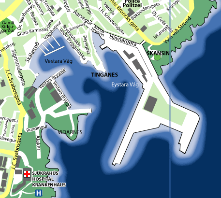 Map of the harbour of Tórshavn